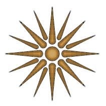 This image was created by User:Zikander at 7 September 2005 and licensed under the GFDL. It was modified (added colours etc) by User:Matia.gr.